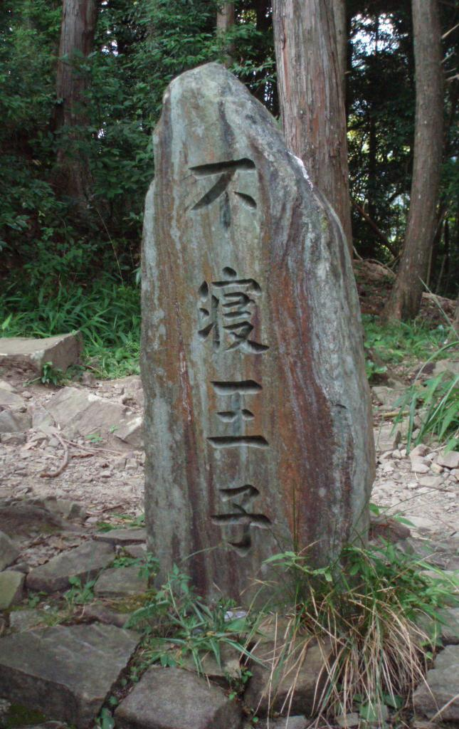 Sacred_chant_tablet_(AMIDADERA-temple,_Nachi-Katsuura,_Wakayama)